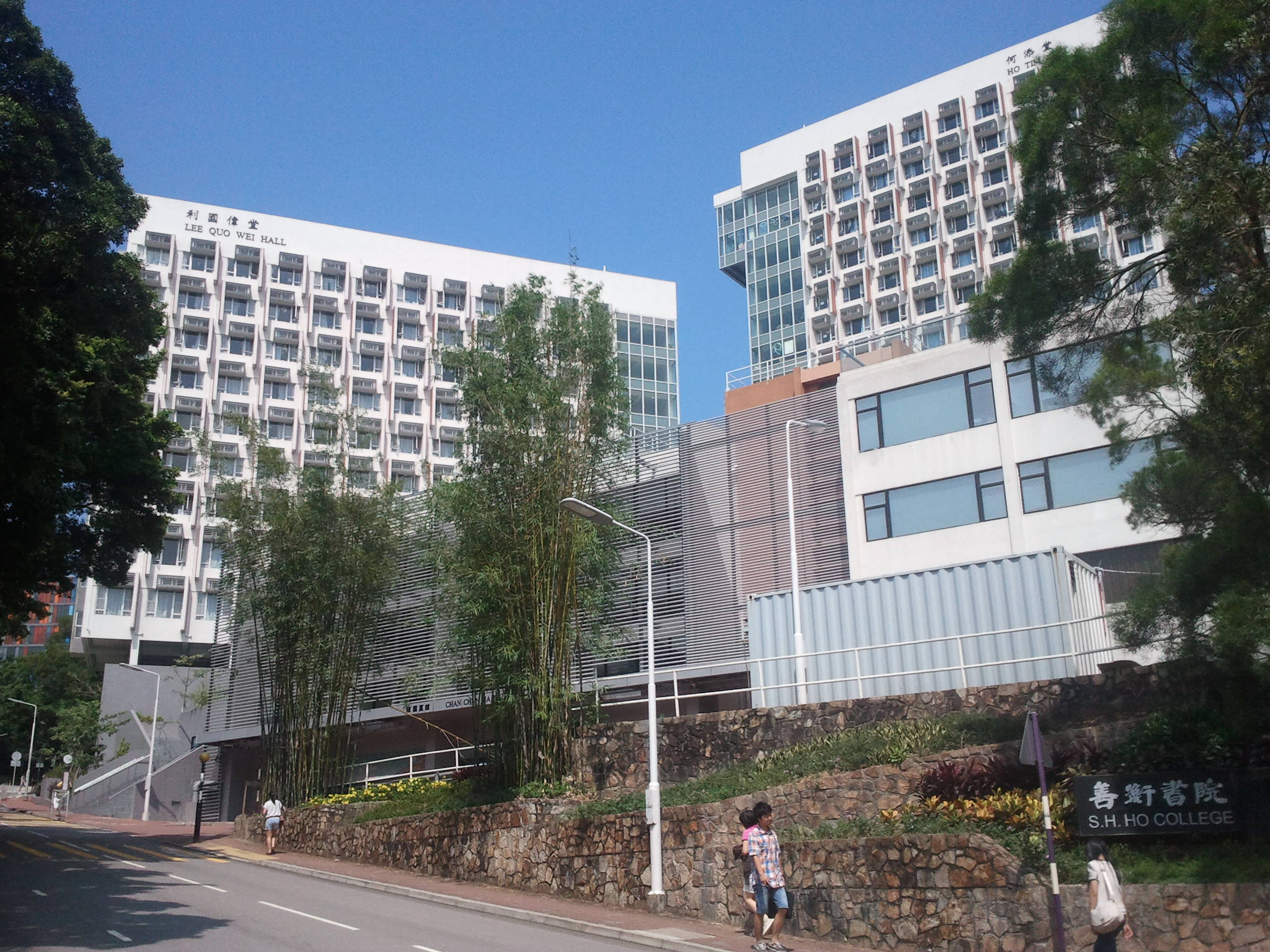 S. H. Ho College overview